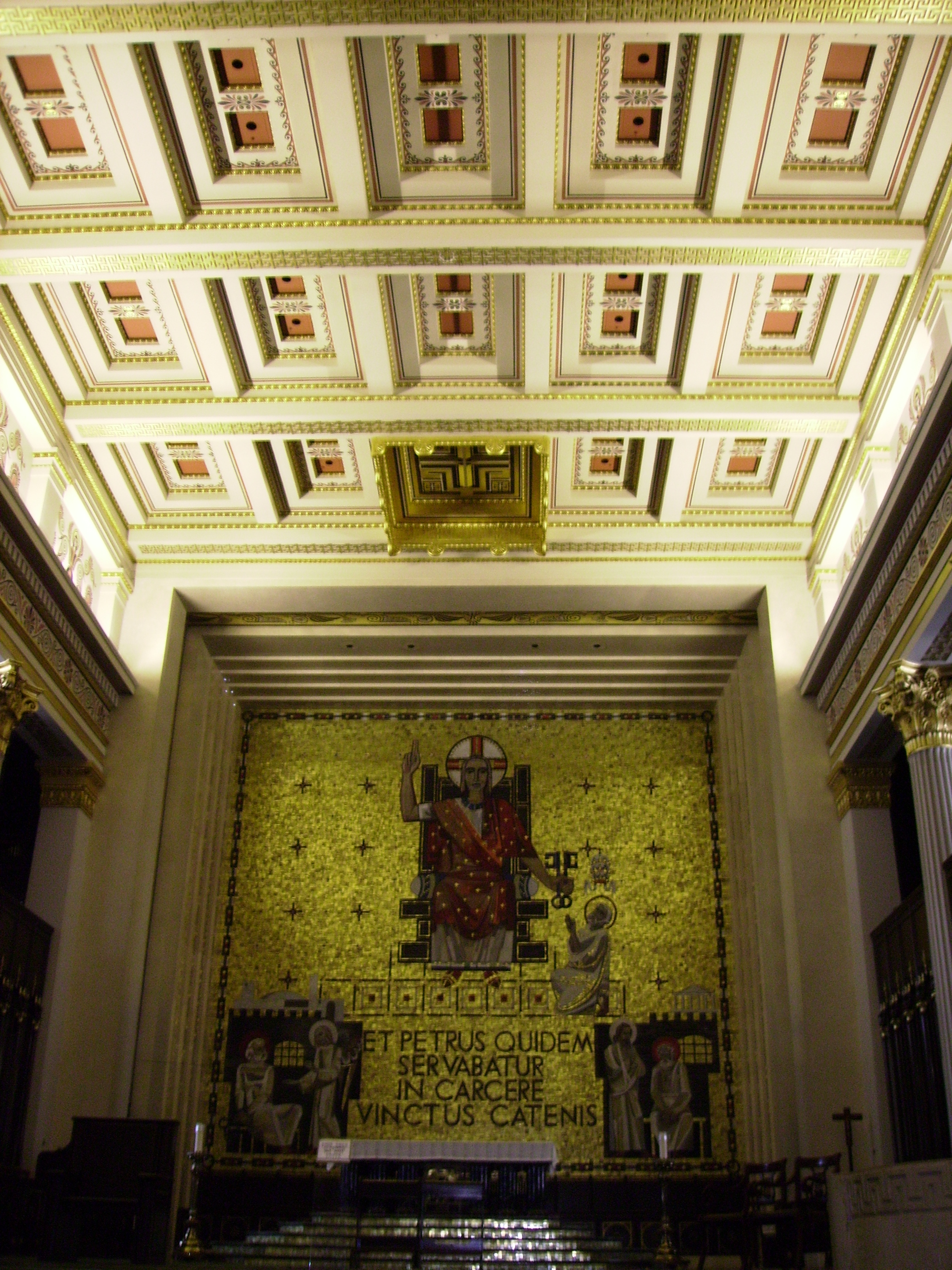 Inside St. Peter's Cathedral in downtown Cincinnati.